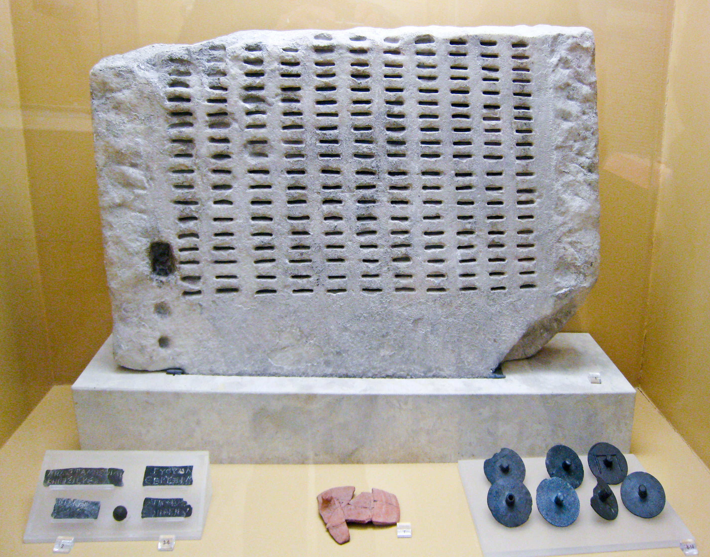 Kleroterion. This device was used for the jury selection system in Athens. Bronze identification tickets were inserted to indicate eligible jurors who were also divided into tribes. By a random process, a whole row would be accepted or rejected for jury service. There was a kleroteria in front of each court. Ancient Agora Museum in Athens.